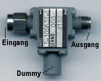 A microwave ferrite circulator used as an isolator. The circulator is the top device, shaped like a "T" with three connectors (ports) to attach to coaxial cable lines carrying radio waves. It has the property that a radio signal entering any port only comes out of the port clockwise of it. In this example the bottom port is attached to a matched resistive "dummy load" (labeled "Dummy"), which absorbs power. So radio power entering the righthand port (labeled Eingang, "Input") will come out of the lefthand port (labeled Ausgang, "Output"), but radio power entering the lefthand port is absorbed by the load. This device is used to prevent any radio power reflected from the load attached to the lefthand port from returning to the source.